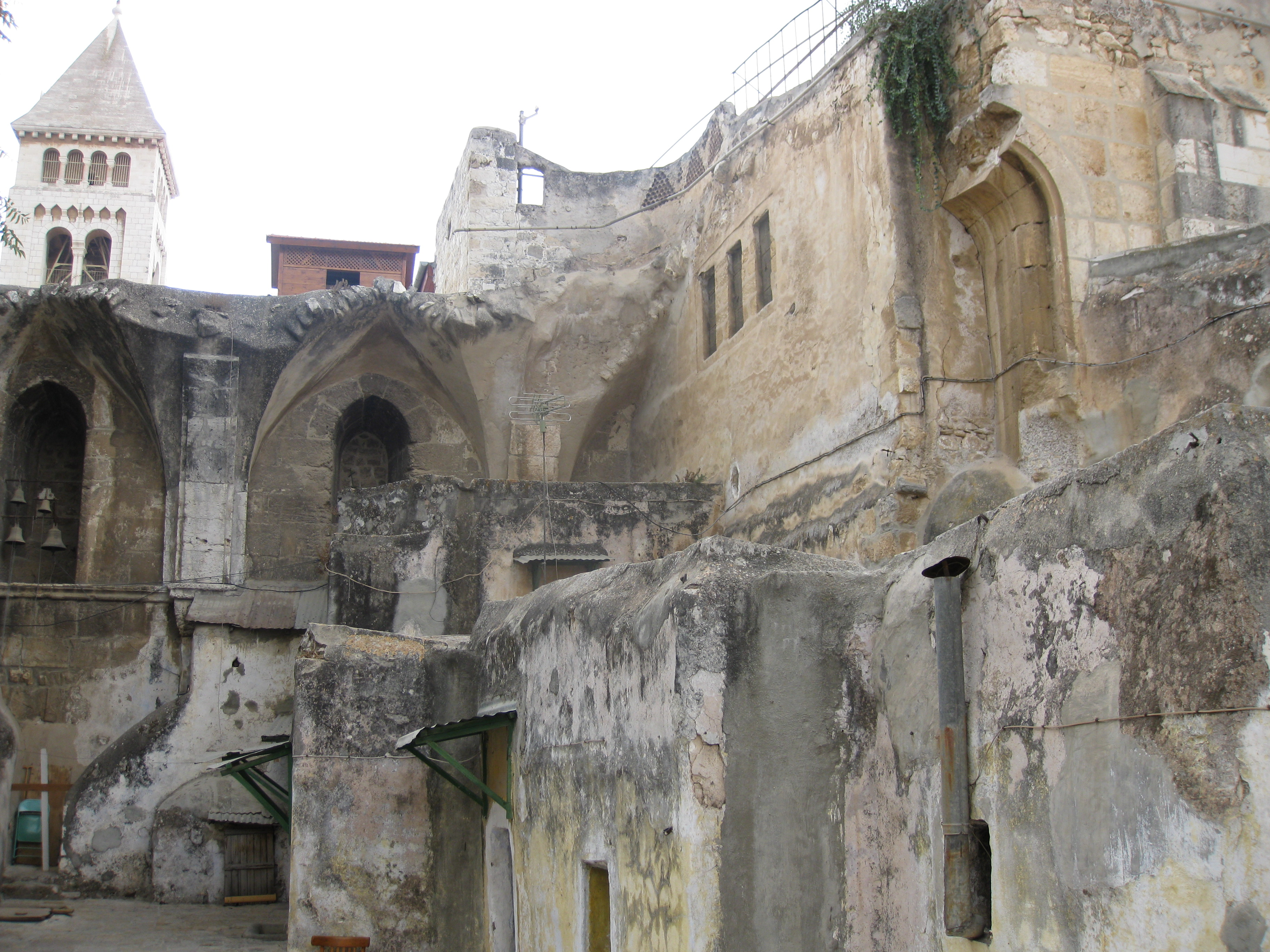 Deir Es-Sultan